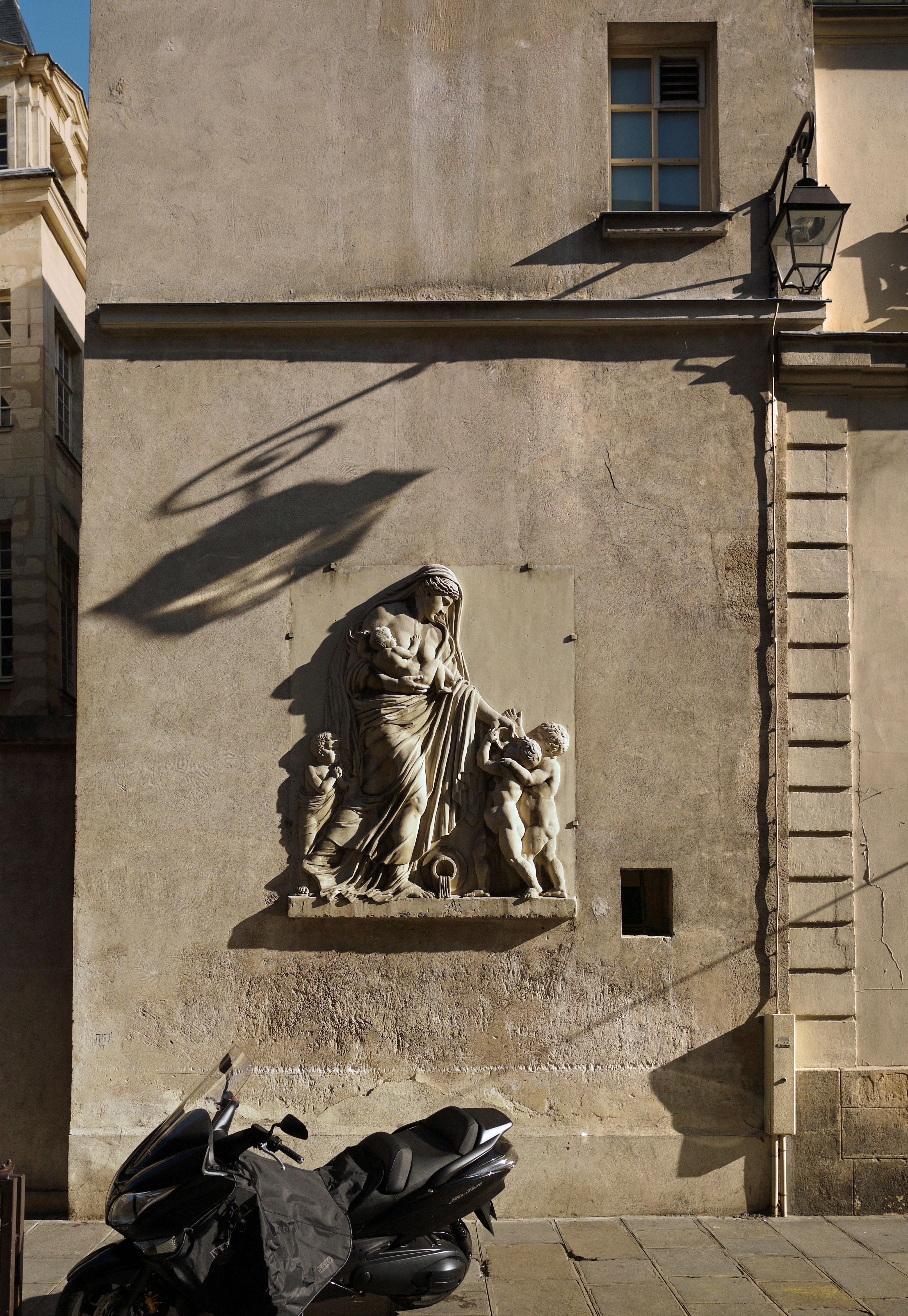 Former fontaine de la Charité, Paris IIIe arrondissement, France.